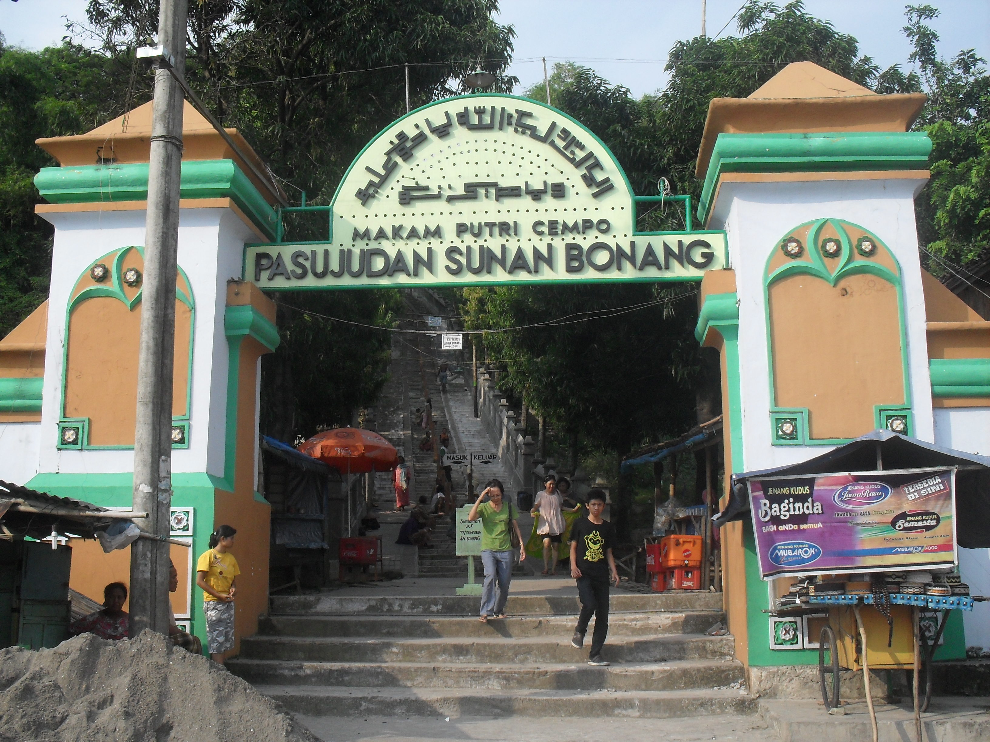 they are the pasujudan sunan bonang pictures